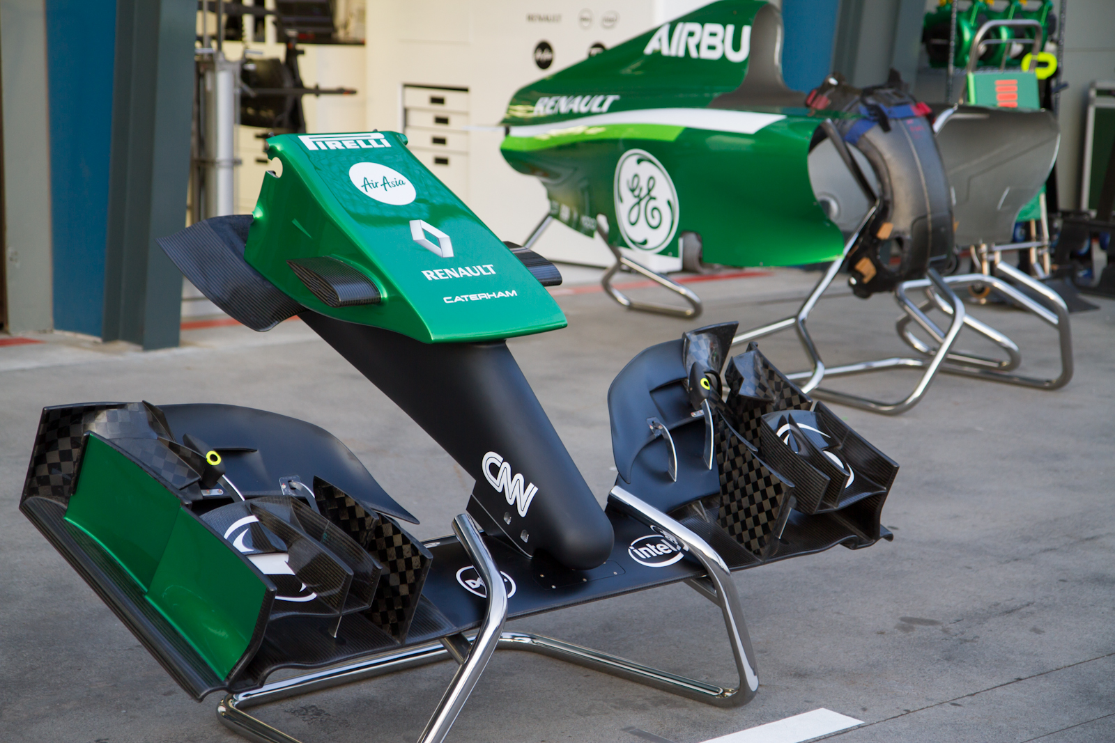 2014 Australian F1 Grand Prix